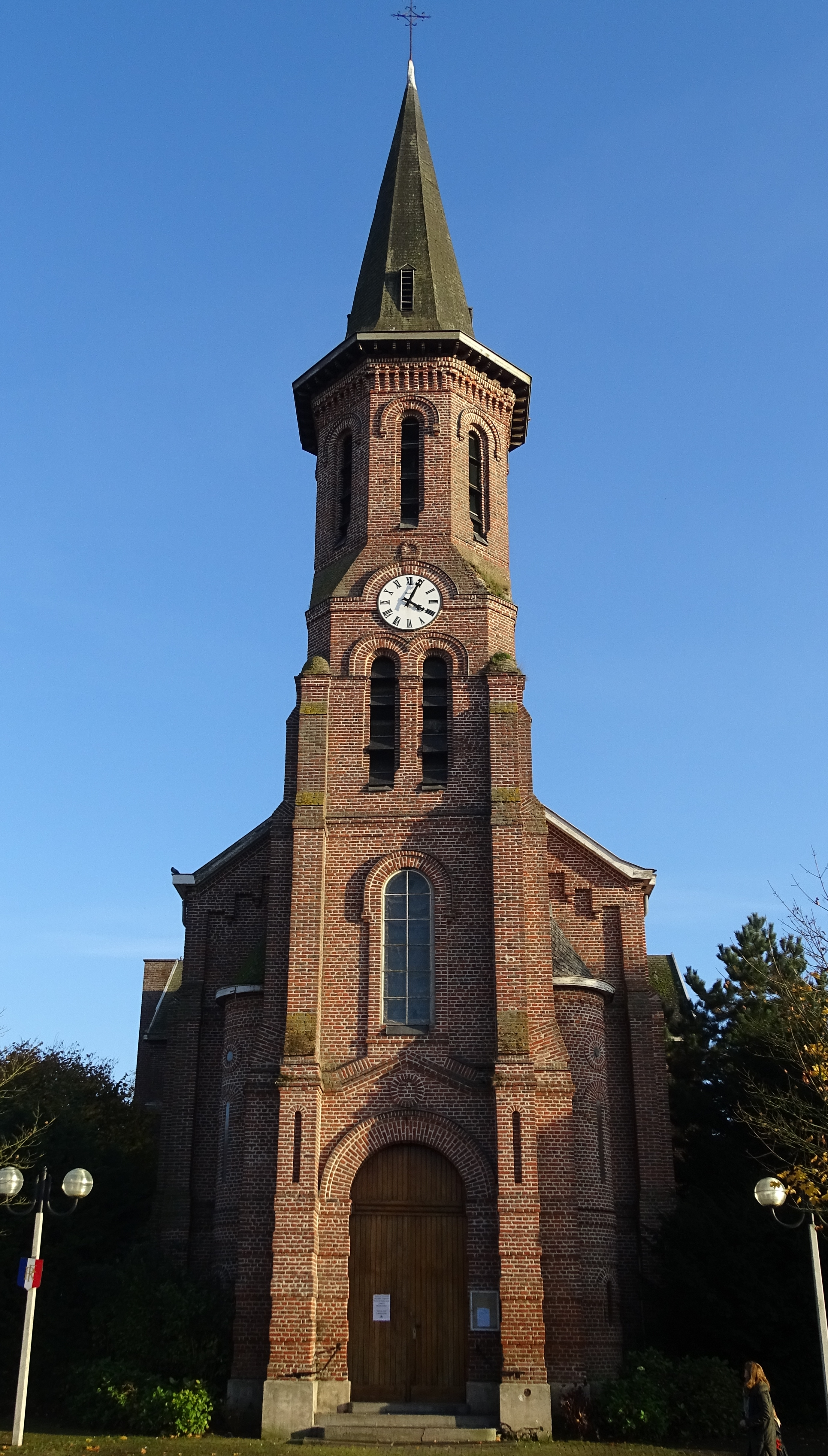 Depicted place: Q21283430